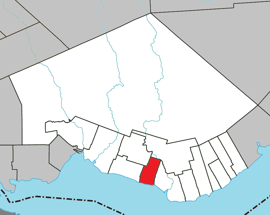 Location of Saint-Siméon, Quebec within Bonaventure Regional County Municipality.